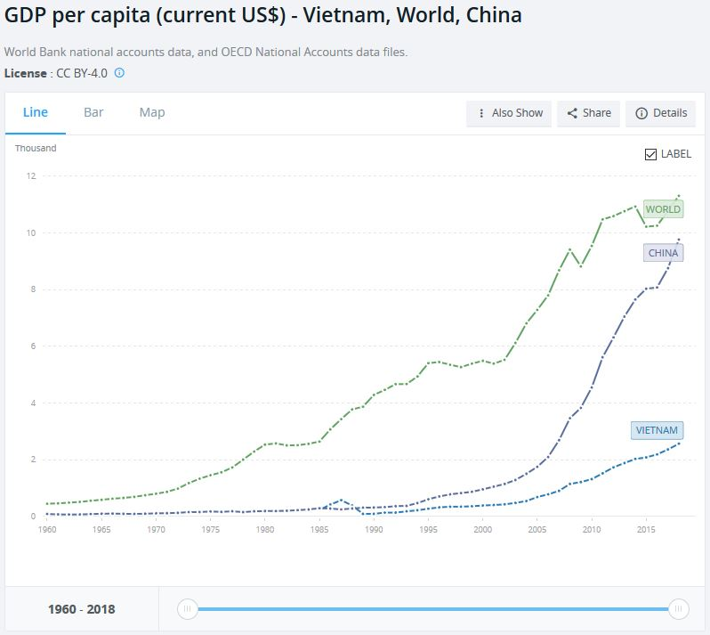 GDP per capita of Vietnam compare to China and World